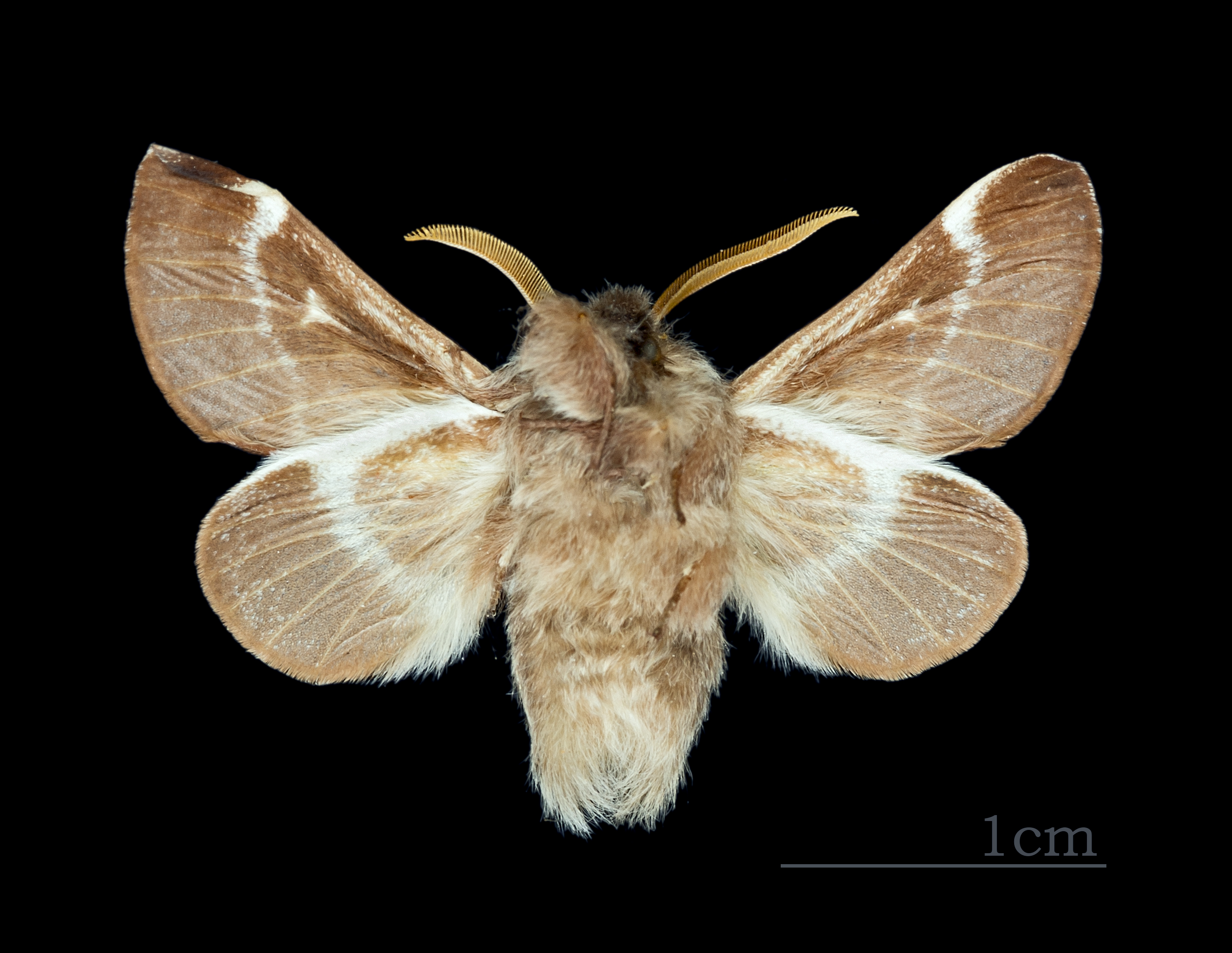 Small Eggar - △ Ventral side